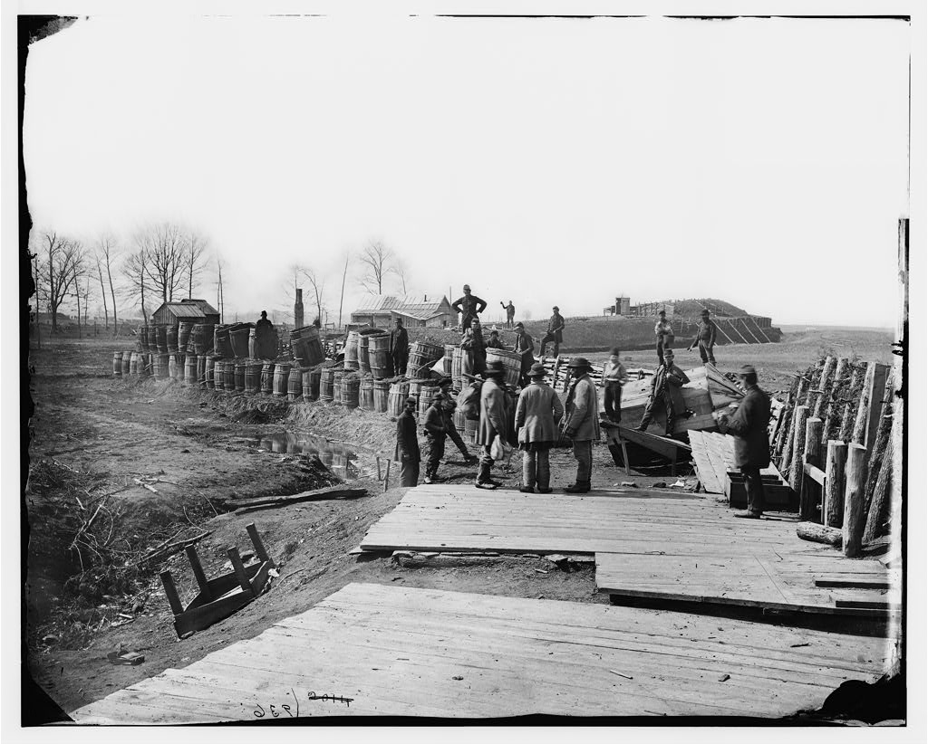 Confederate fortifications at Manassas, VA. Stereograph taken by George N. Barnard in Marh 1862